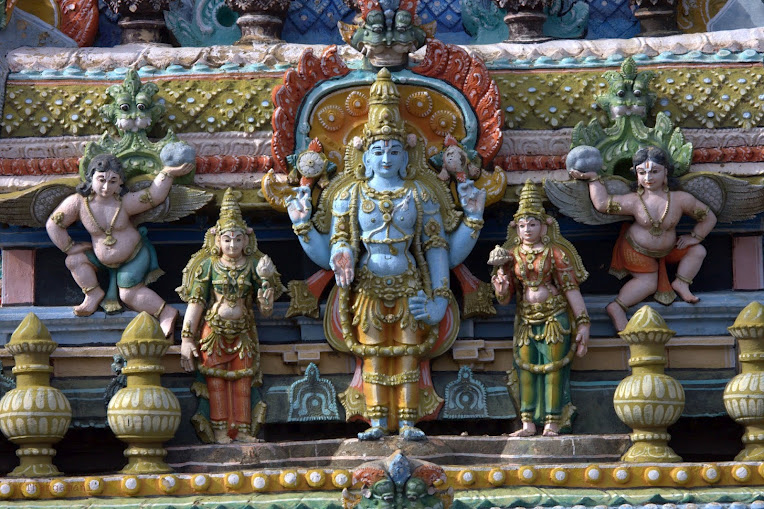 Srirangam temple, tower, kopuram, cement sculptures-vishnu